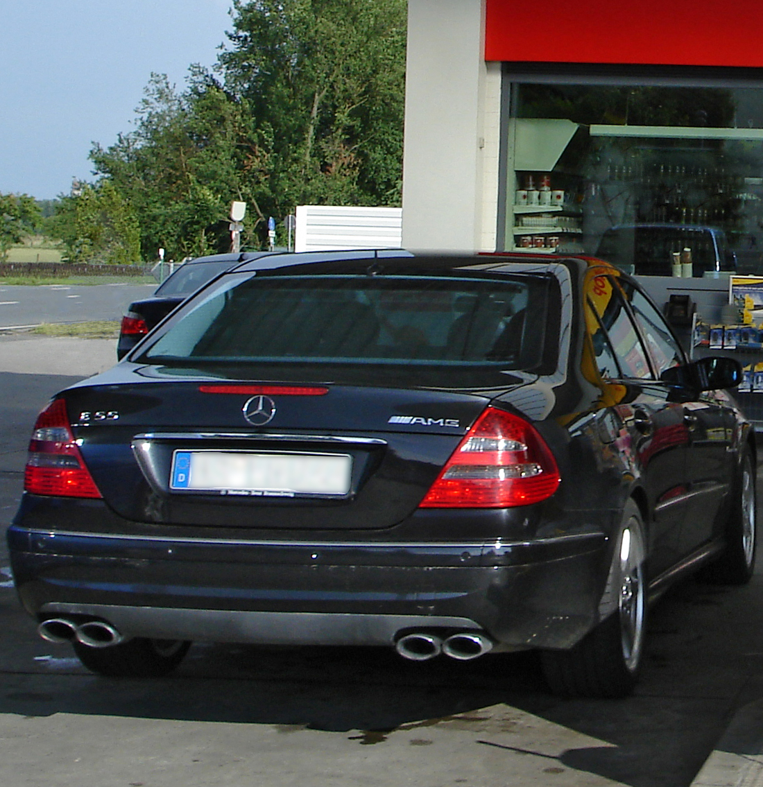 Mercedes E55 AMG V8 W211 rear